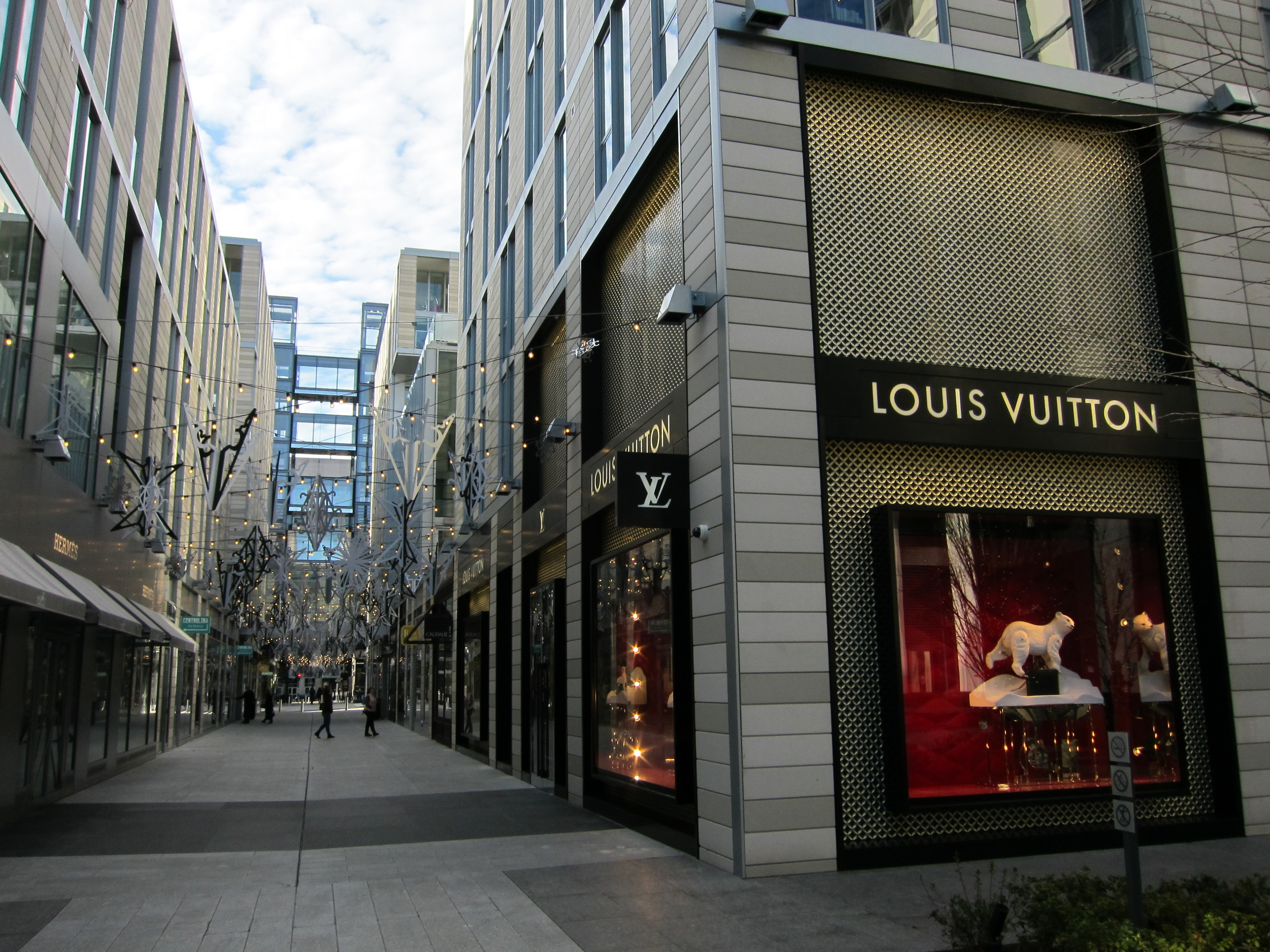 Palmer Alley in the CityCenterDC complex in Washington, D.C.